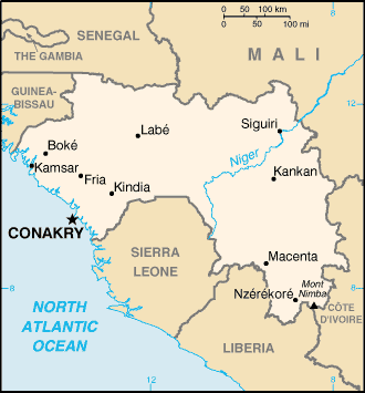 English map of Guinea